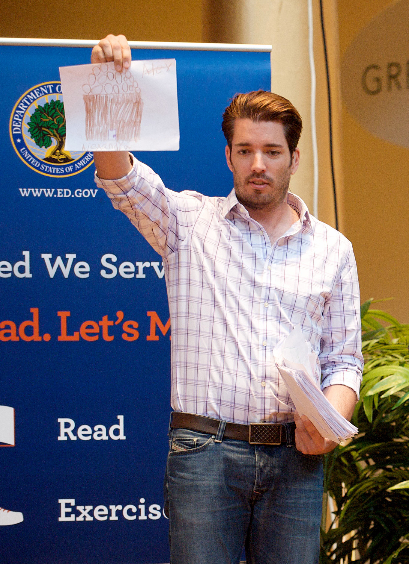 Jonathan Scott at the United We Serve Let's Read. Let's Move event on August 6, 2013